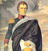 This work is in the public domain in its country of origin and other countries and areas where the copyright term is the author's life plus 70 years or fewer. You must also include a United States public domain tag to indicate why this work is in the public domain in the United States. Note that a few countries have copyright terms longer than 70 years: Mexico has 100 years, Jamaica has 95 years, Colombia has 80 years, and Guatemala and Samoa have 75 years. This image may not be in the public domain in these countries, which moreover do not implement the rule of the shorter term. Côte d'Ivoire has a general copyright term of 99 years and Honduras has 75 years, but they do implement the rule of the shorter term. Copyright may extend on works created by French who died for France in World War II (more information), Russians who served in the Eastern Front of World War II (known as the Great Patriotic War in Russia) and posthumously rehabilitated victims of Soviet repressions (more information). This file has been identified as being free of known restrictions under copyright law, including all related and neighboring rights. (Santa del Norte el 26/12/1783)-(La Asunción el 6/7/1853) Jefe militar venezolano, que participo en la defensa de la isla de Margarita contra la invasión de las fuerzas españolas.